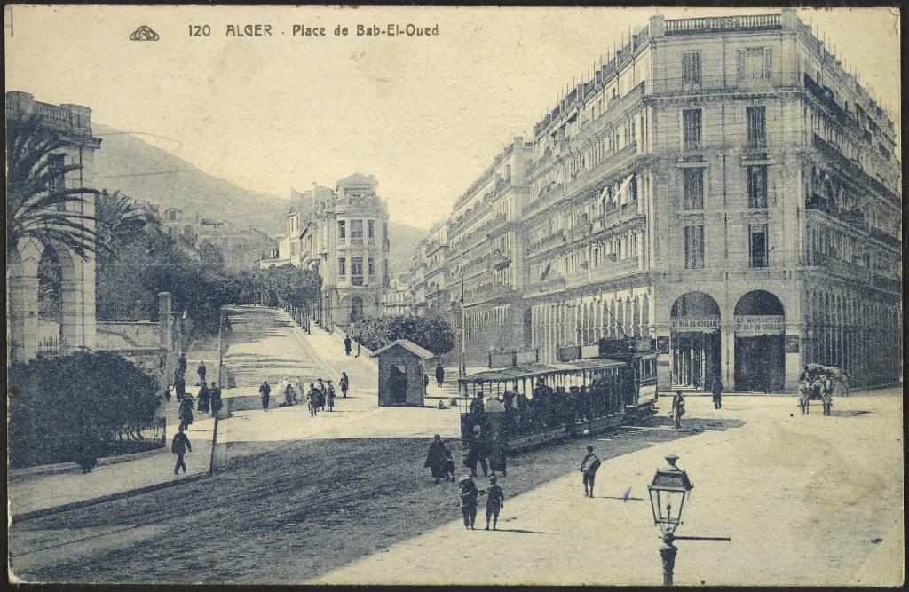 Postcard of Algiers, early 20th century Creator: CAP Date: early 20th century Accession number: ZPC2 A1A4 Featured in the exhibition, May 19 - October 18, 2009 at the Getty Research Institute. Part of the Cities and Sites Postcard collection in the Getty Research Institute Library's special collections.